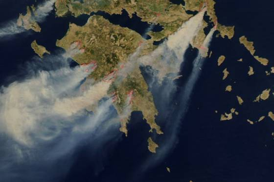 NASA image of the Peloponnese forest fires of 2007 in southern Greece